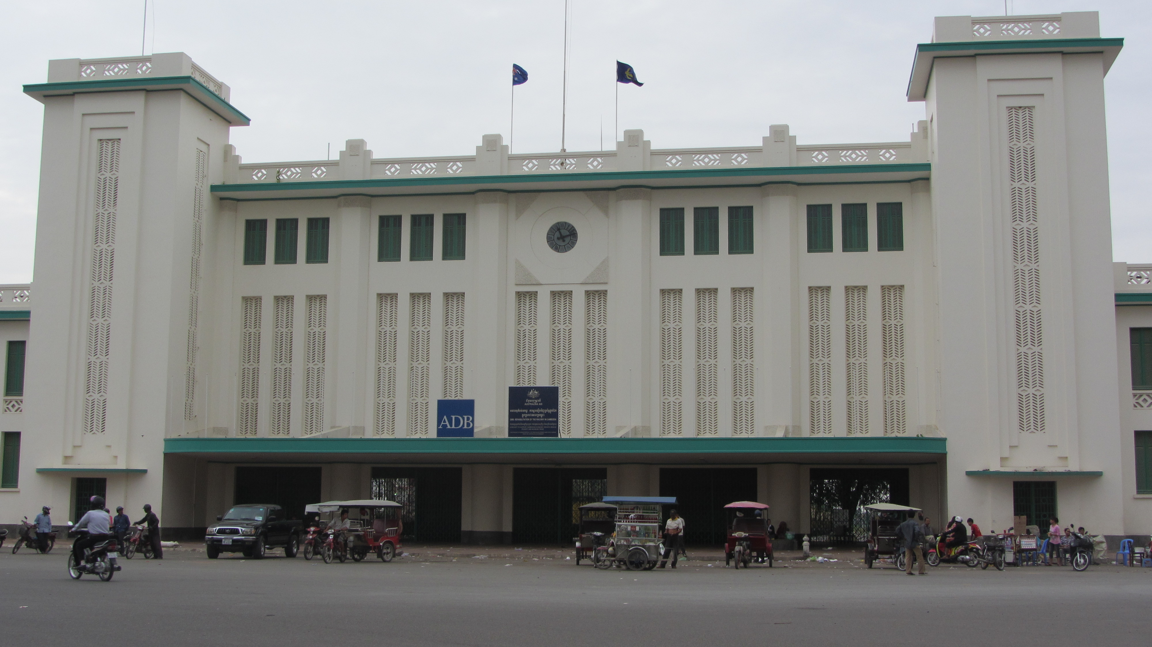 Refurbished building